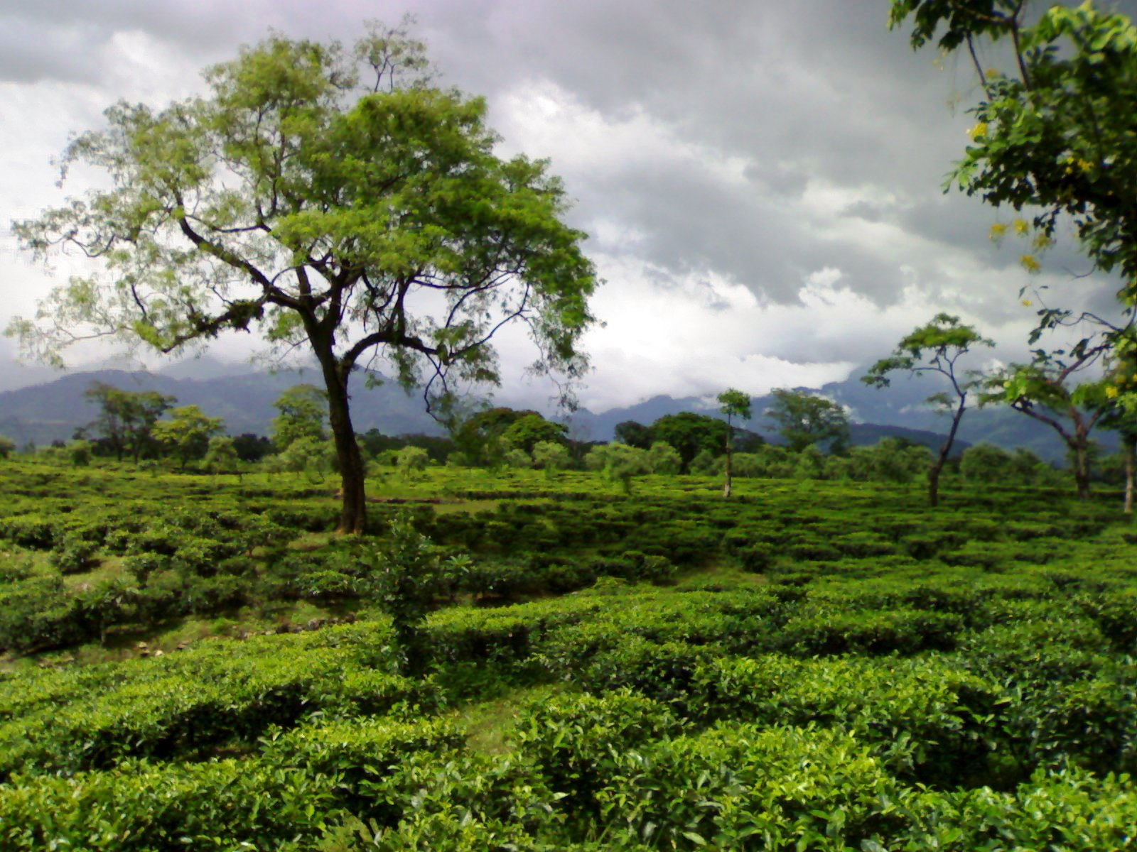 A tea estate in Dooars (West Bengal) at the foothills of the Himalayas. Hila Tea Estate, Jalpaiguri district, West Bengal, India.